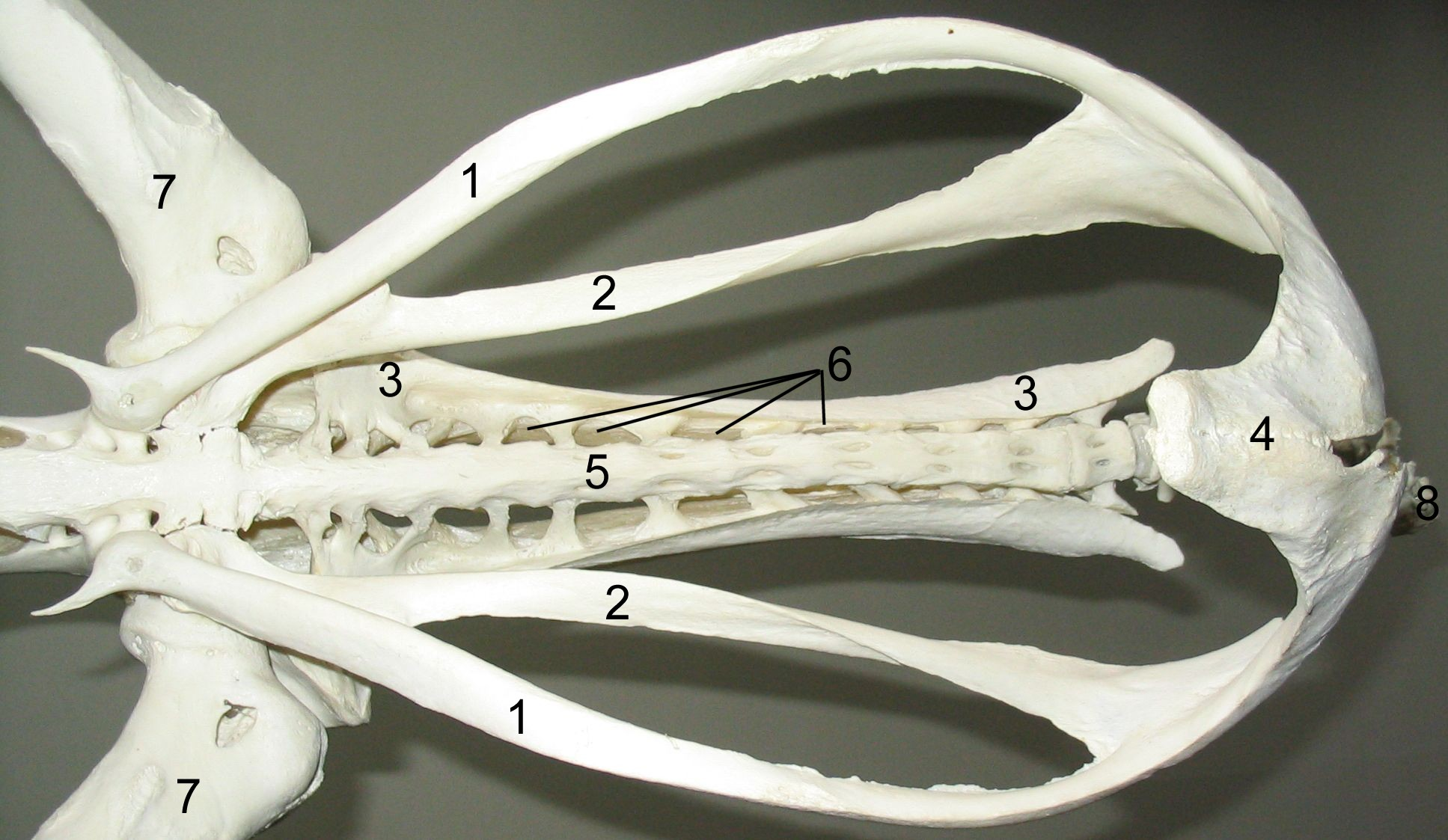 pelvis and synsacrum of an ostrich, ventral view 1 Os pubis, 2 Os ischii, 3 Os ilium, 4 symphysis pubica, 5 Synsacrum, 6 Fossae renales, 7 Os femoris, 8 Pygostyl